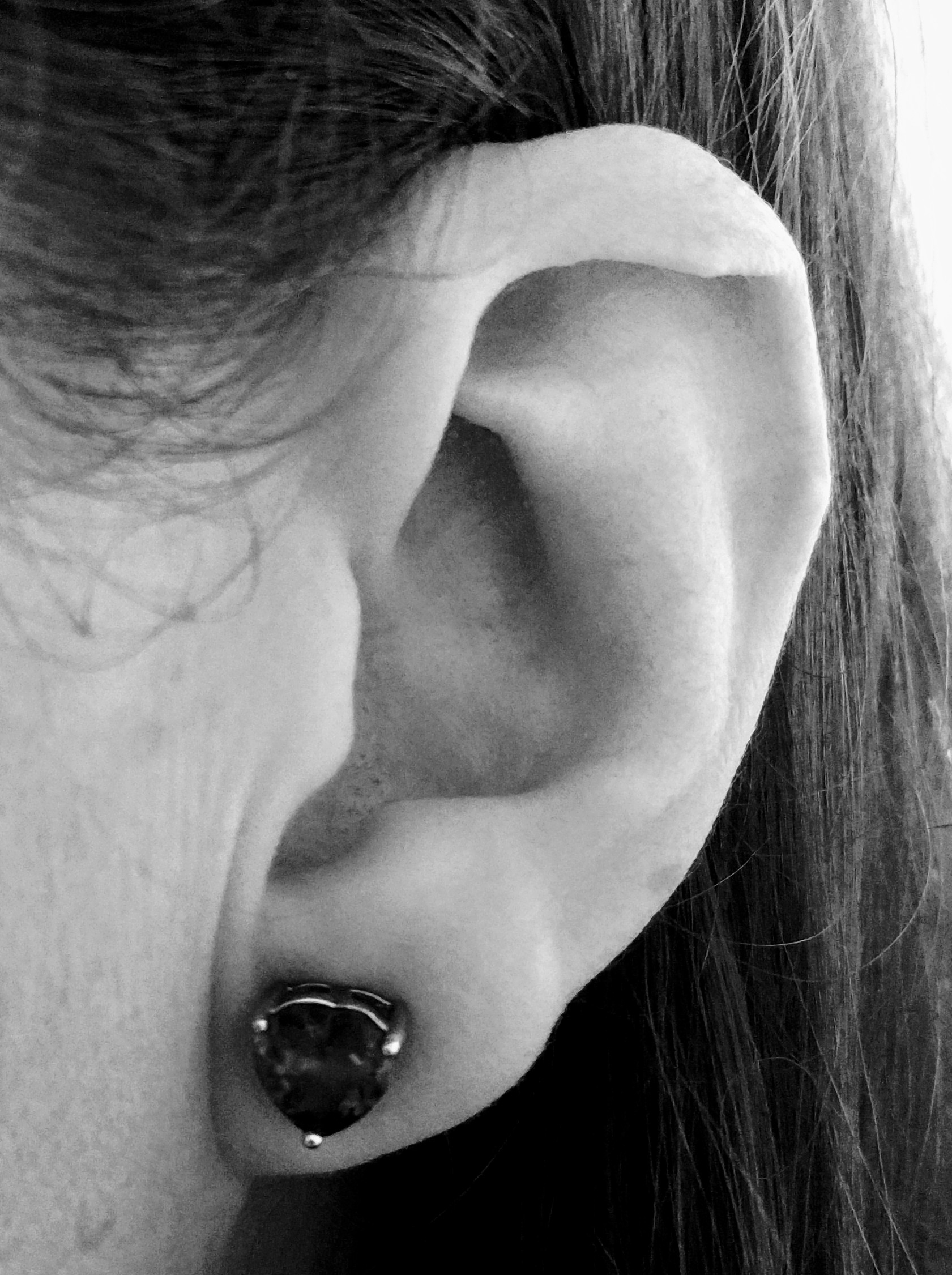 Darwins Tubercle (helix)